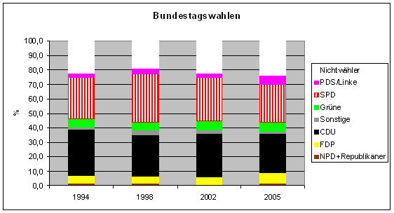 Graph made by me using data from official publications of the Federal Statistical Office of Germany.